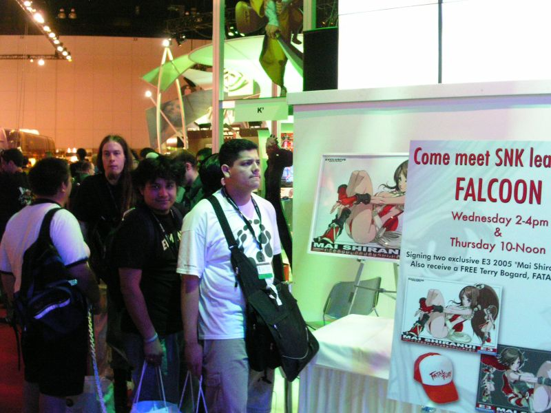 Taken on May 18, 2005 Los Angeles, California, US Konica Minolta DiMAGE F200